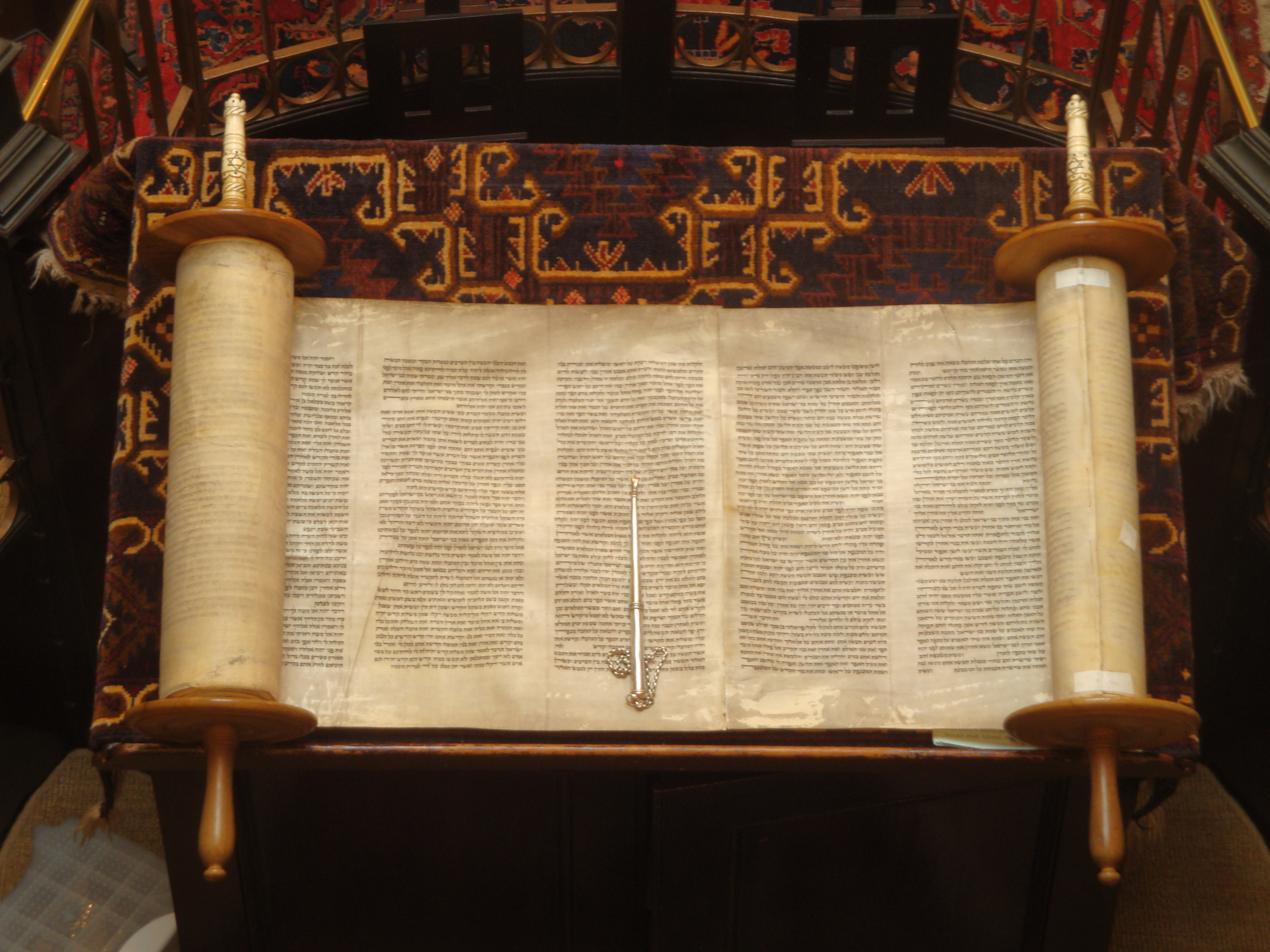 The Torah, the Jewish Holy Book.